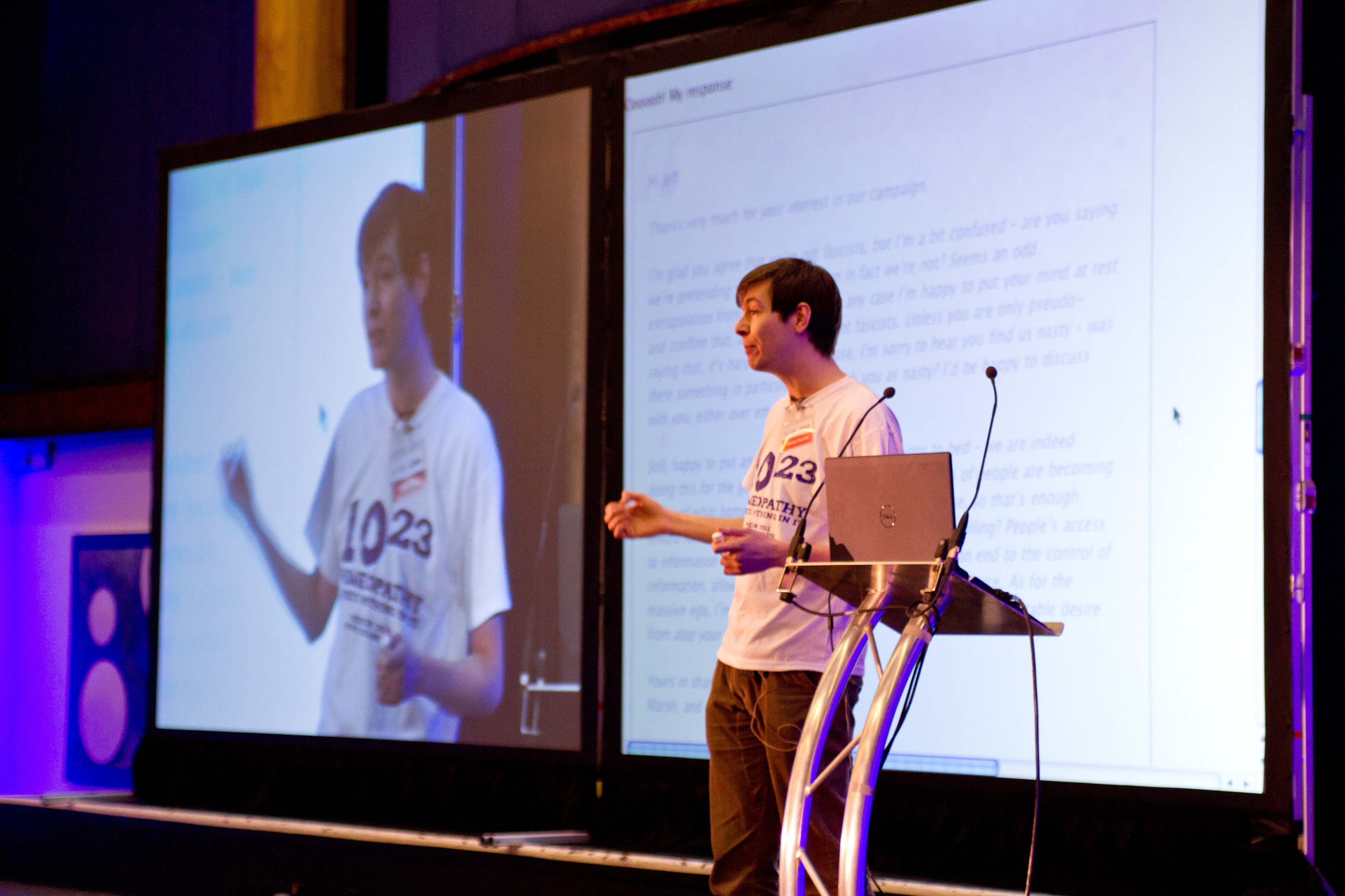 Michael Marshall introducing the 10:23 campaign and the QED conference in Manchester in February 2011. The audience then joined in with an overdose of homeopathic tablets